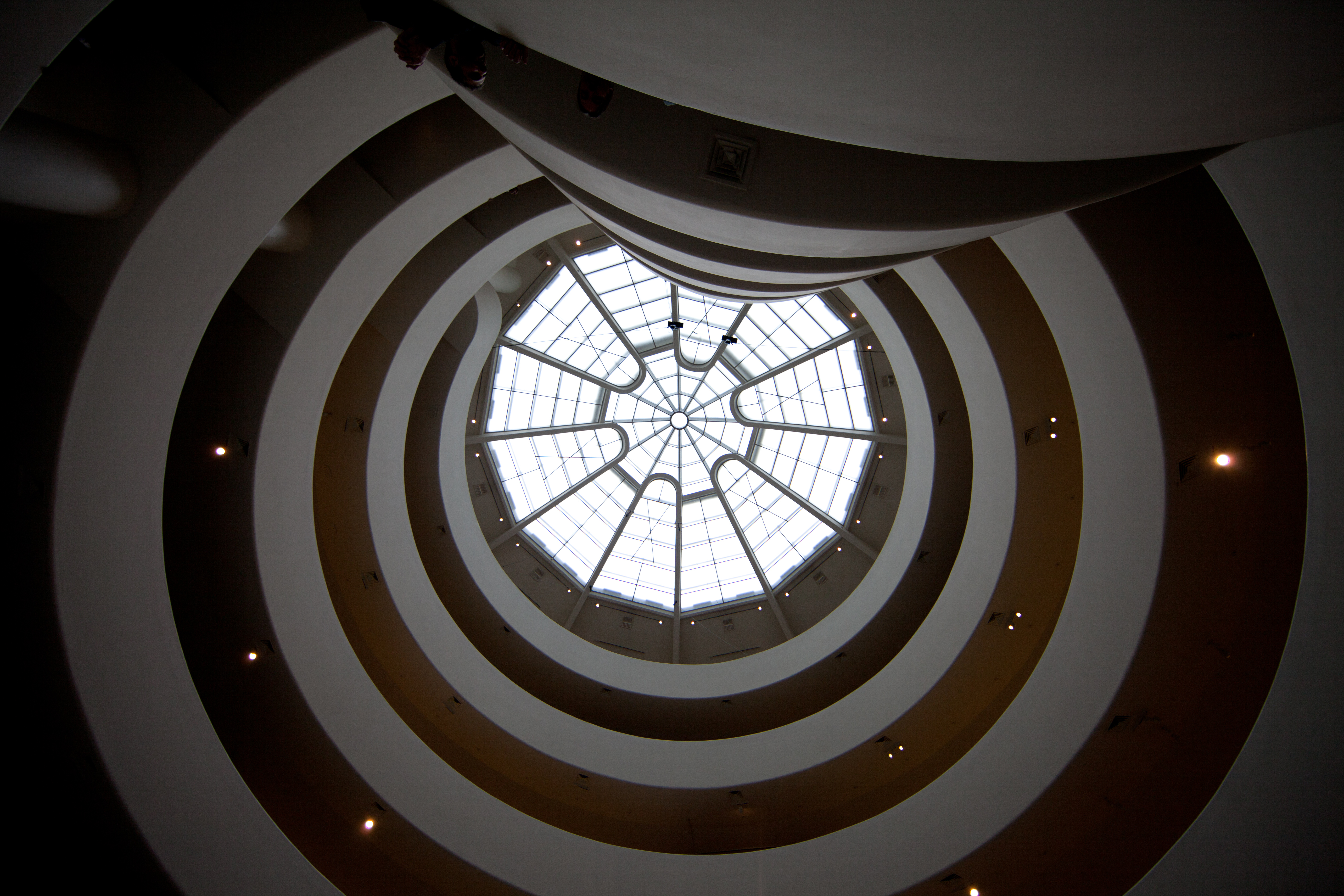 Solomon R. Guggenheim Museum interior, 1071 Fifth Ave., New York, New York, USA - 2012